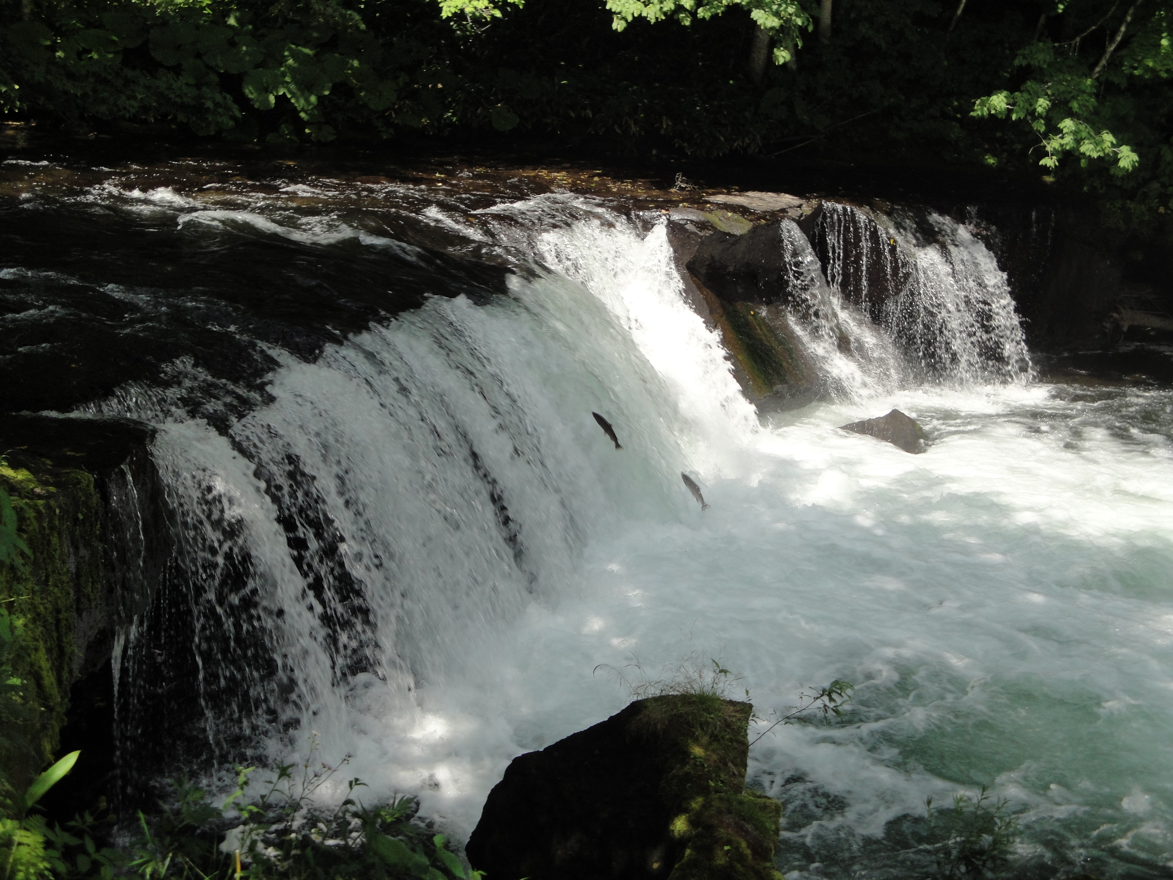 Sakura Falls